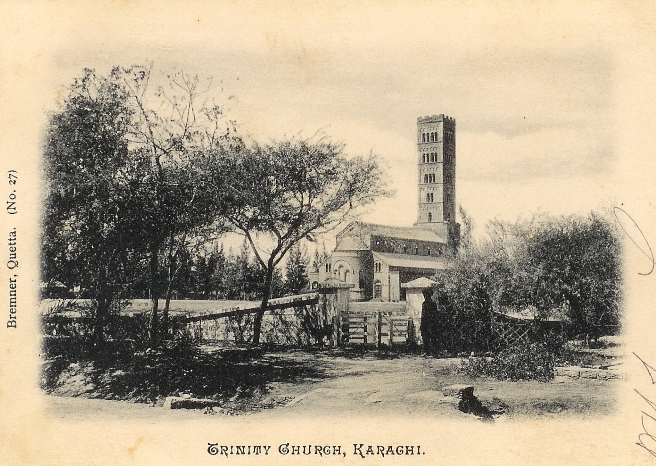 This is a postcard of Holy Trinity Cathedral, Karachi Pakistan, with a postmark of 1906.